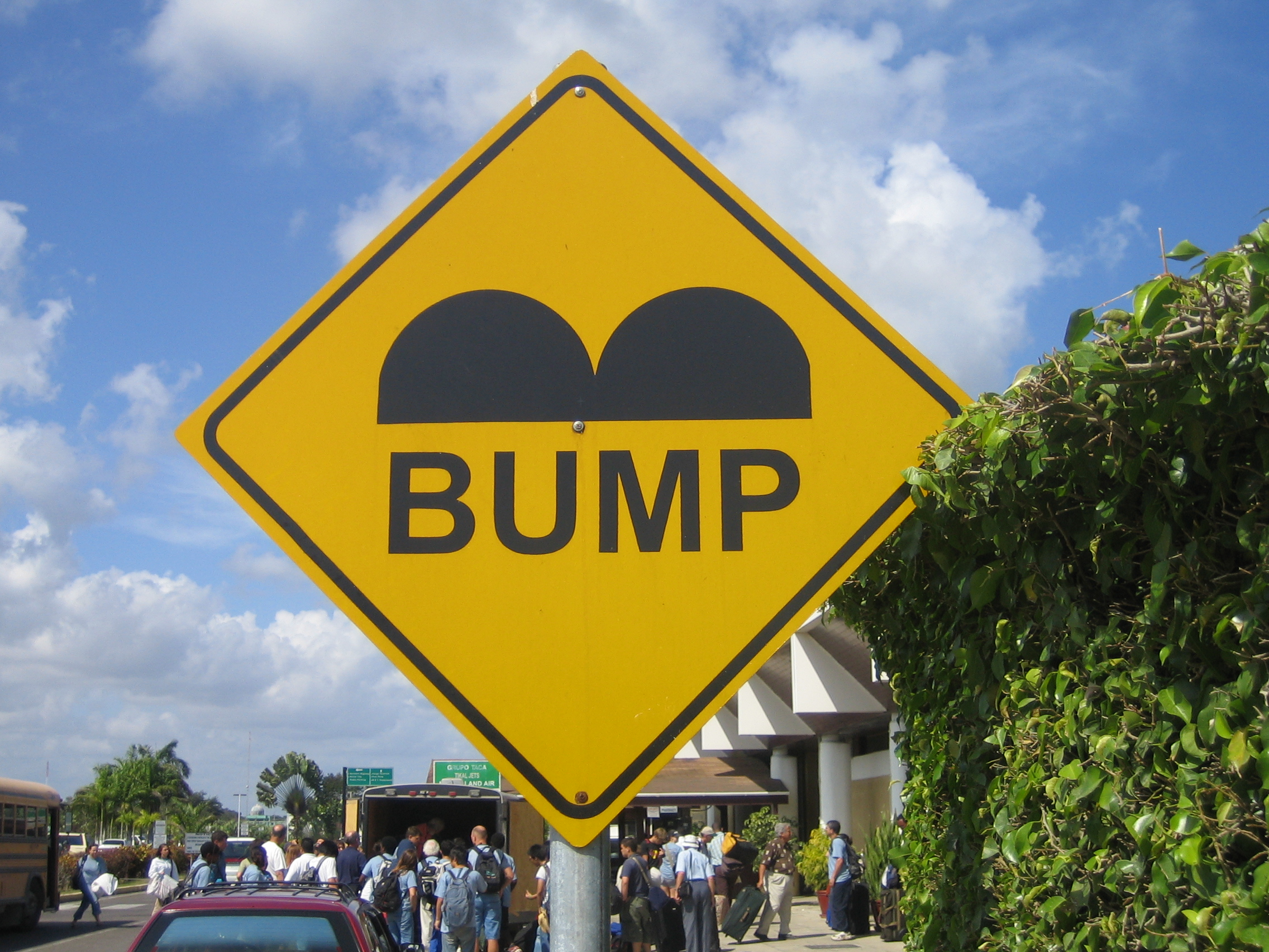 Speed bump sign at Philip S. W. Goldson International Airport in Belize City, Belize